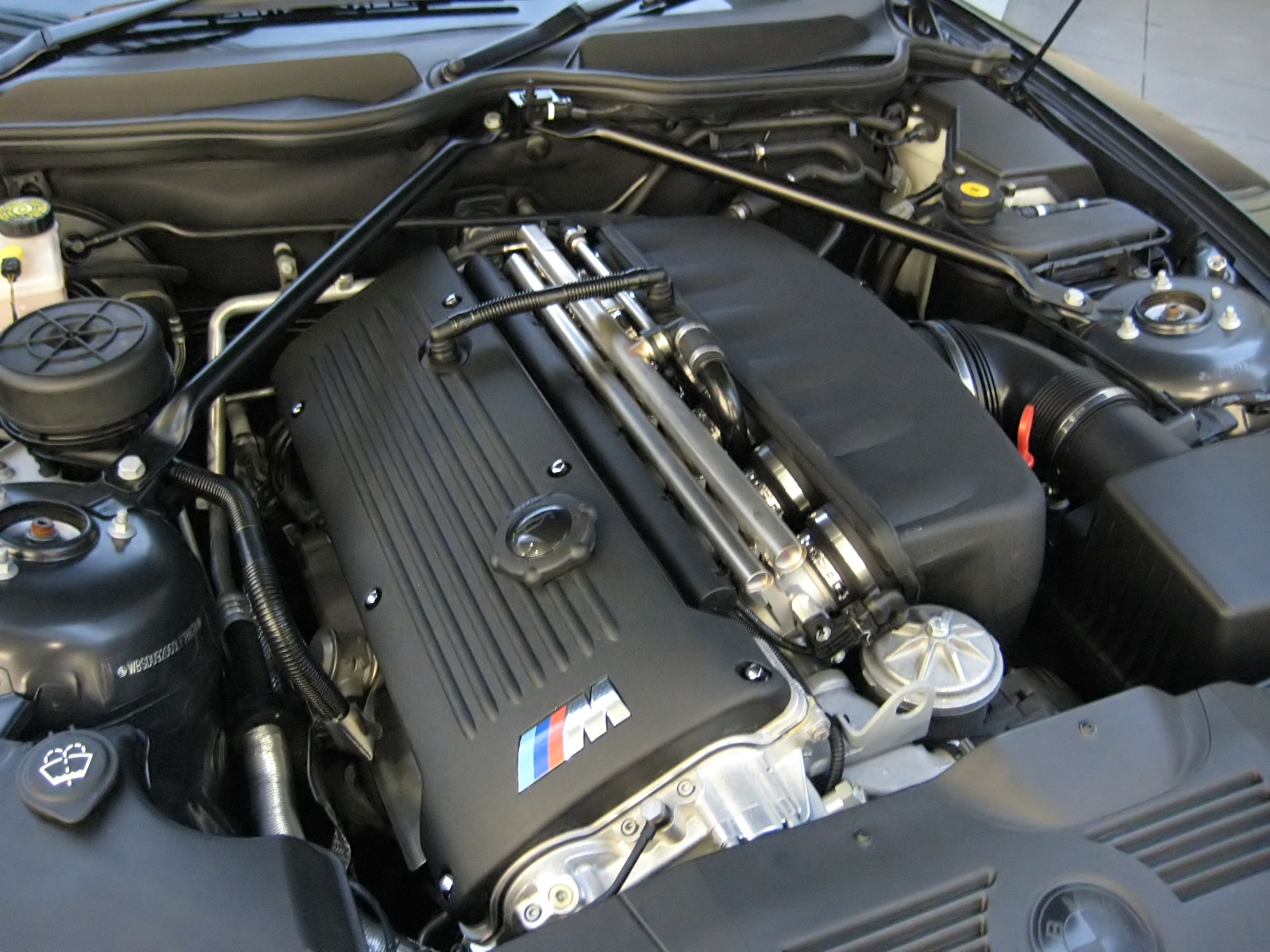 BMW S54B32 3.2L Straight6 DOHC Engine on 2007 BMW Z4 M Coupé